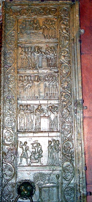 Gniezno Cathedrale Door from 11. century